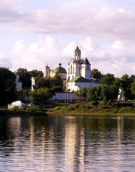 View of the Spaso-Preobrazhensky (Saviour) Monastery in Yaroslavl from across the Kotorosl River.